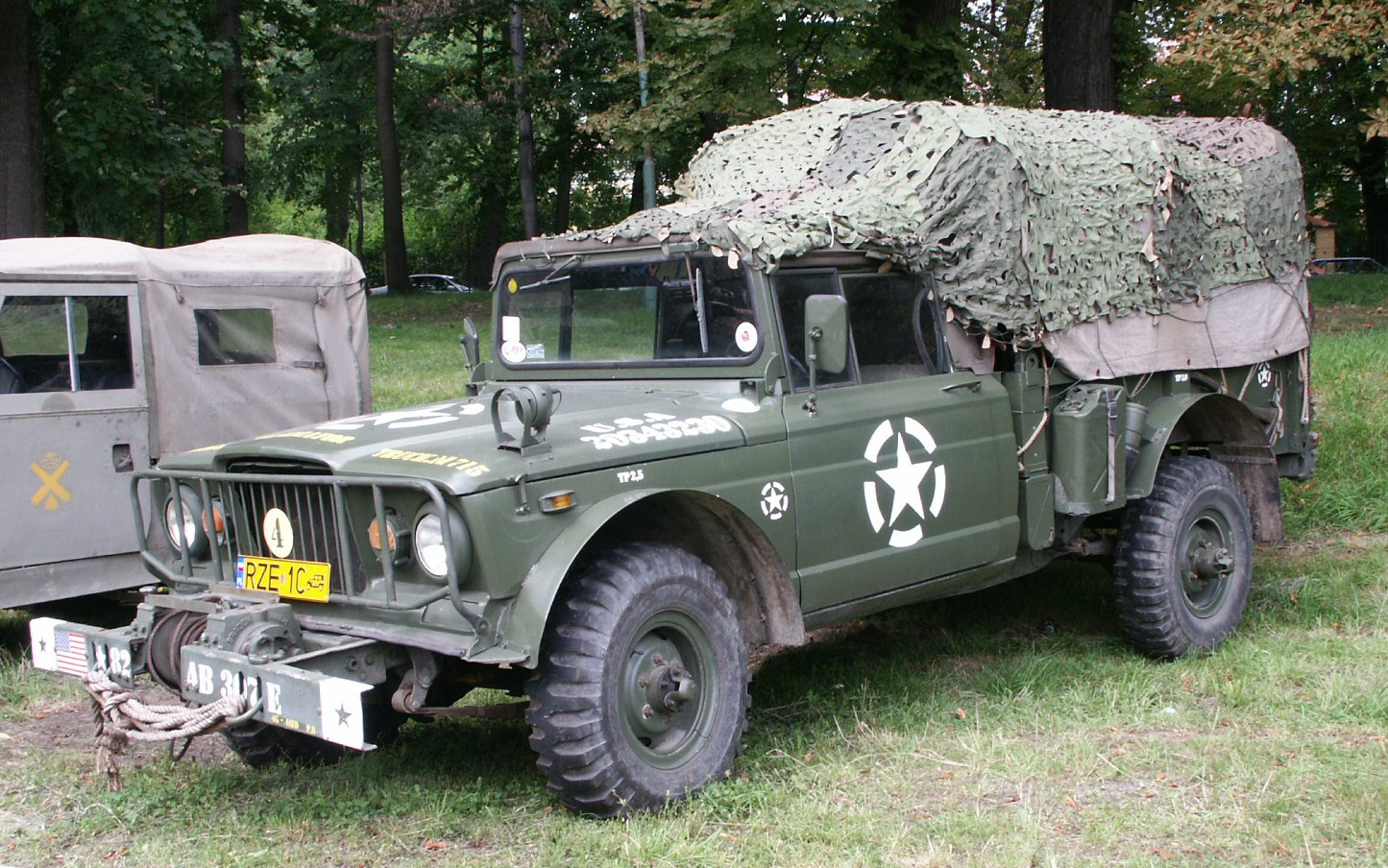 M715 pick-up truck, Łańcut, Poland